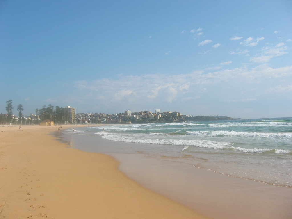 Manly Beach. Taken by Dudesleeper.